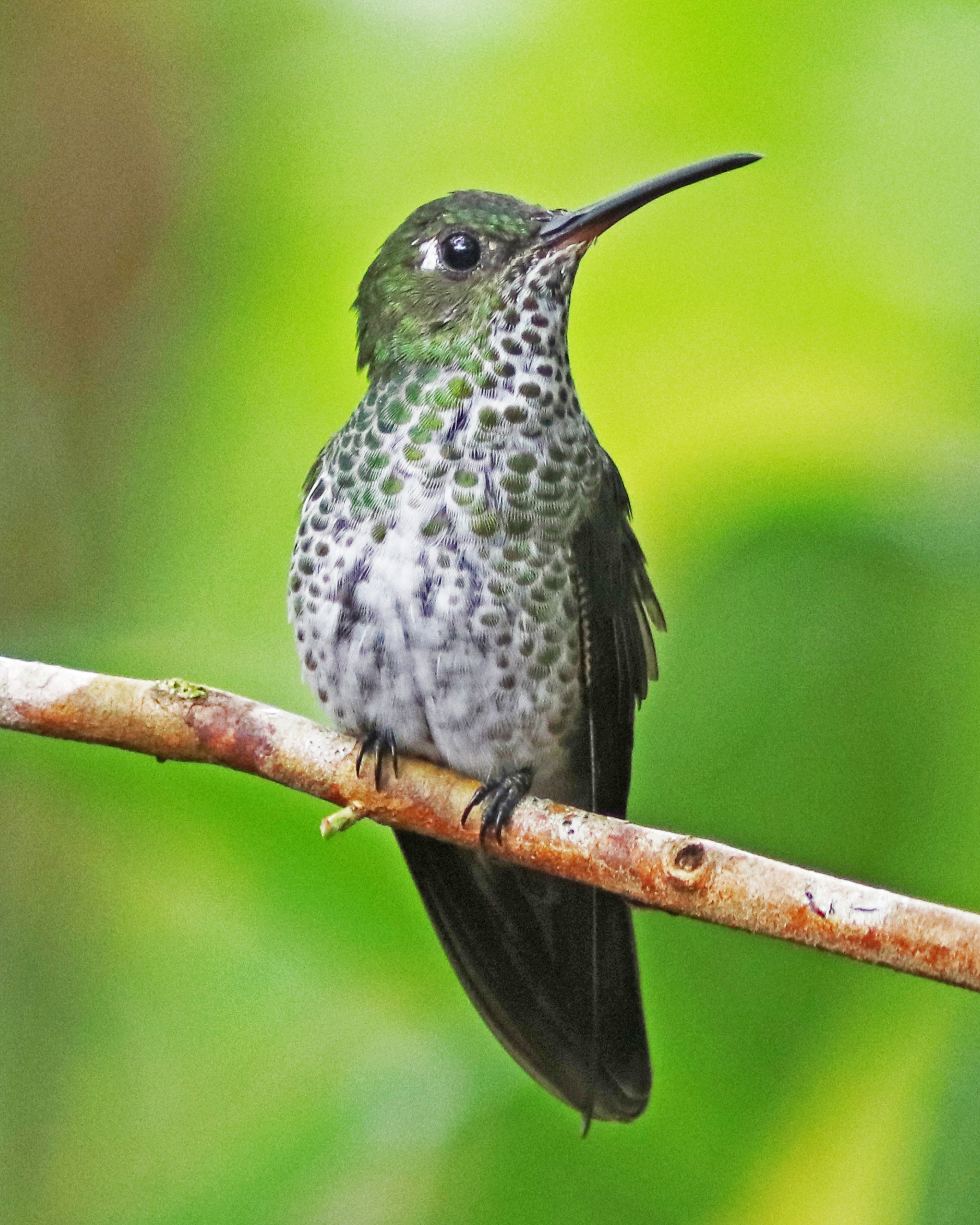 Many-spotted Hummingbird resting on a branch in eastern Ecuador